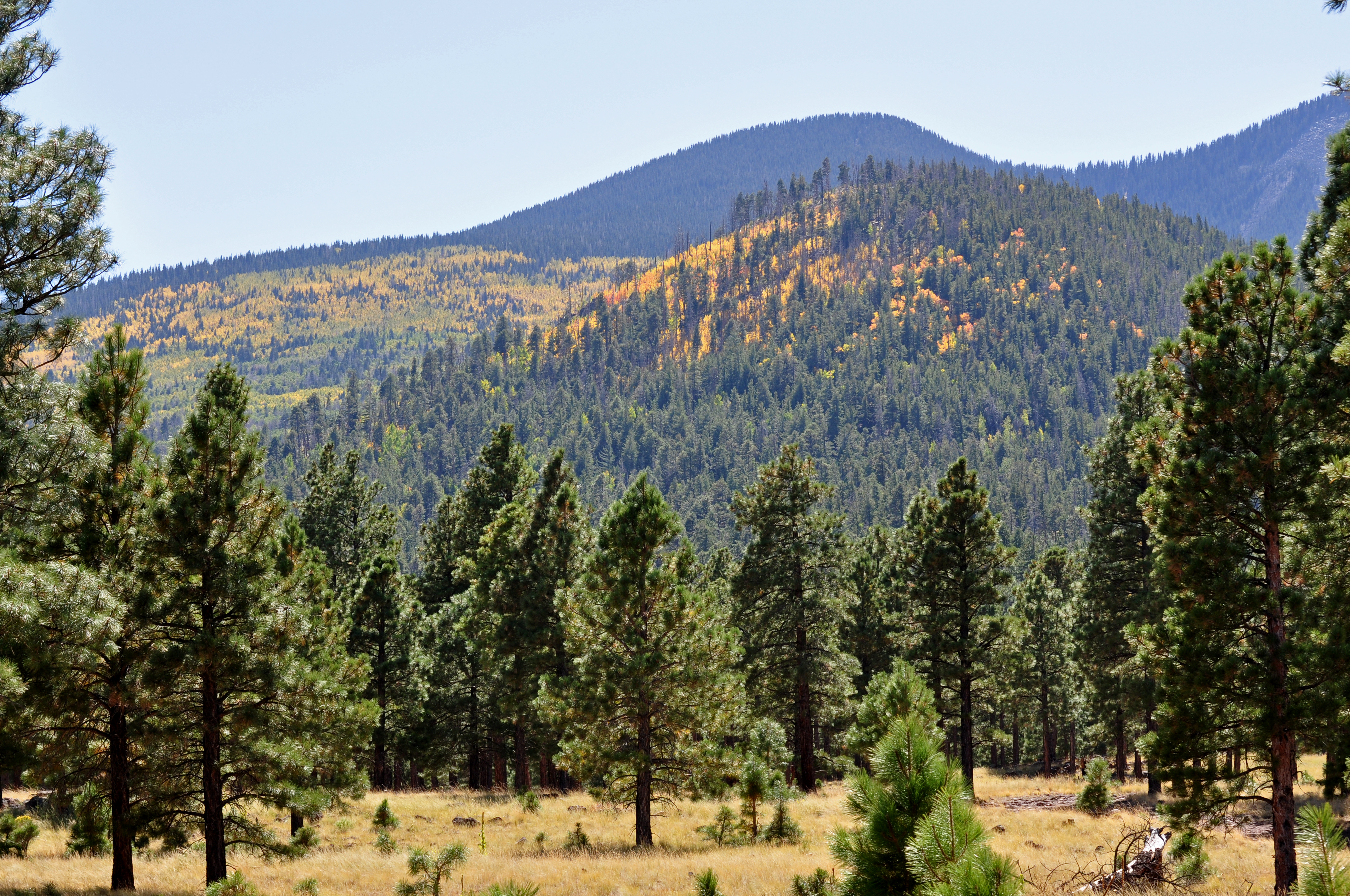 Shades of green, orange, and yellow begin to seize the northeast side of the San Francisco Peaks, as seen from Forest Road 151. Ponderosa pine (Pinus ponderosa) are in the foreground with quaking aspen (Populus tremuloides) on the mountainside. This road is part of the Around the Peaks Loop scenic drive. For details on the drive, go to Taken by Brady Smith on 9-30-09. Credit: USDA Forest Service, Coconino National Forest.